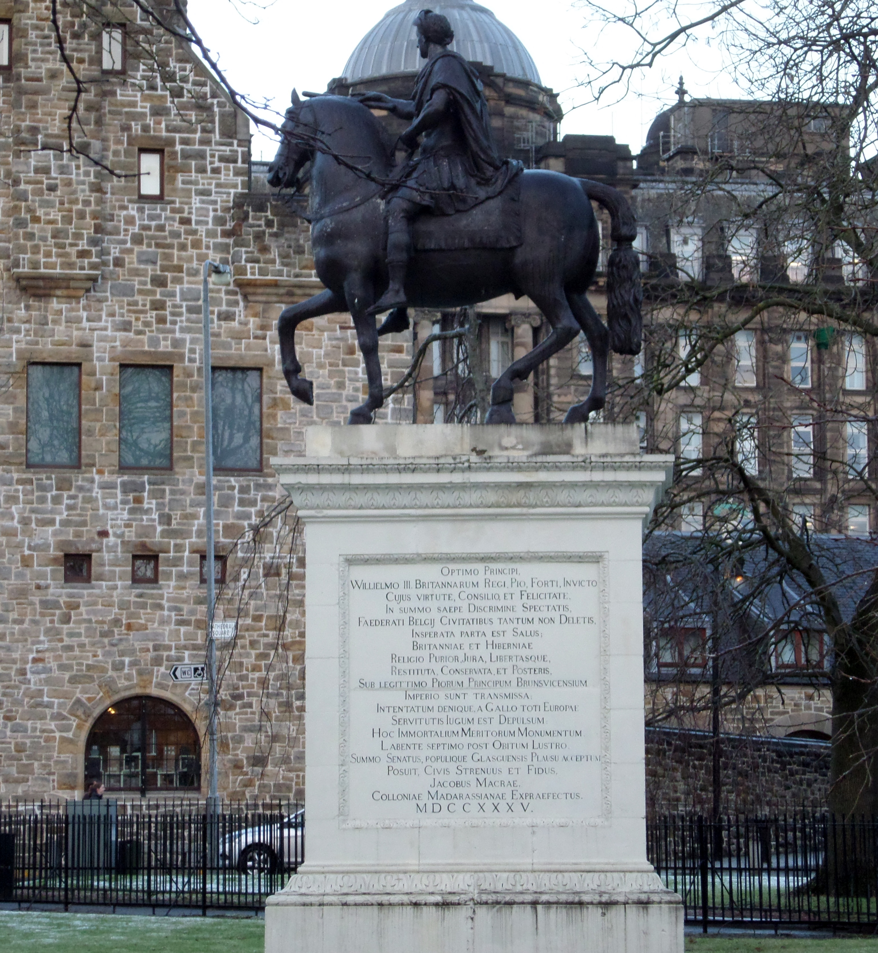 James Macrae of Orangefield was a great admirer and presented this statue. King William III on horseback statue, Glasgow Cathedral Square, Scotland.